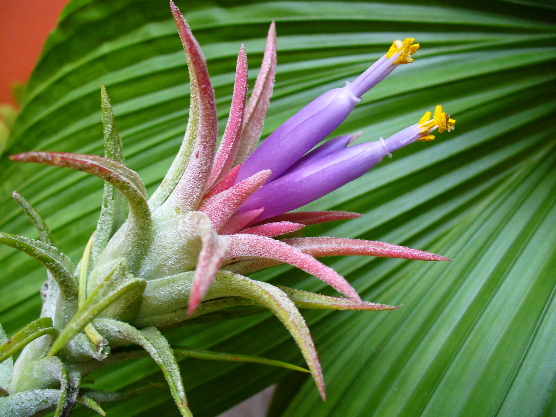 Tilandsia Ionantha Flower